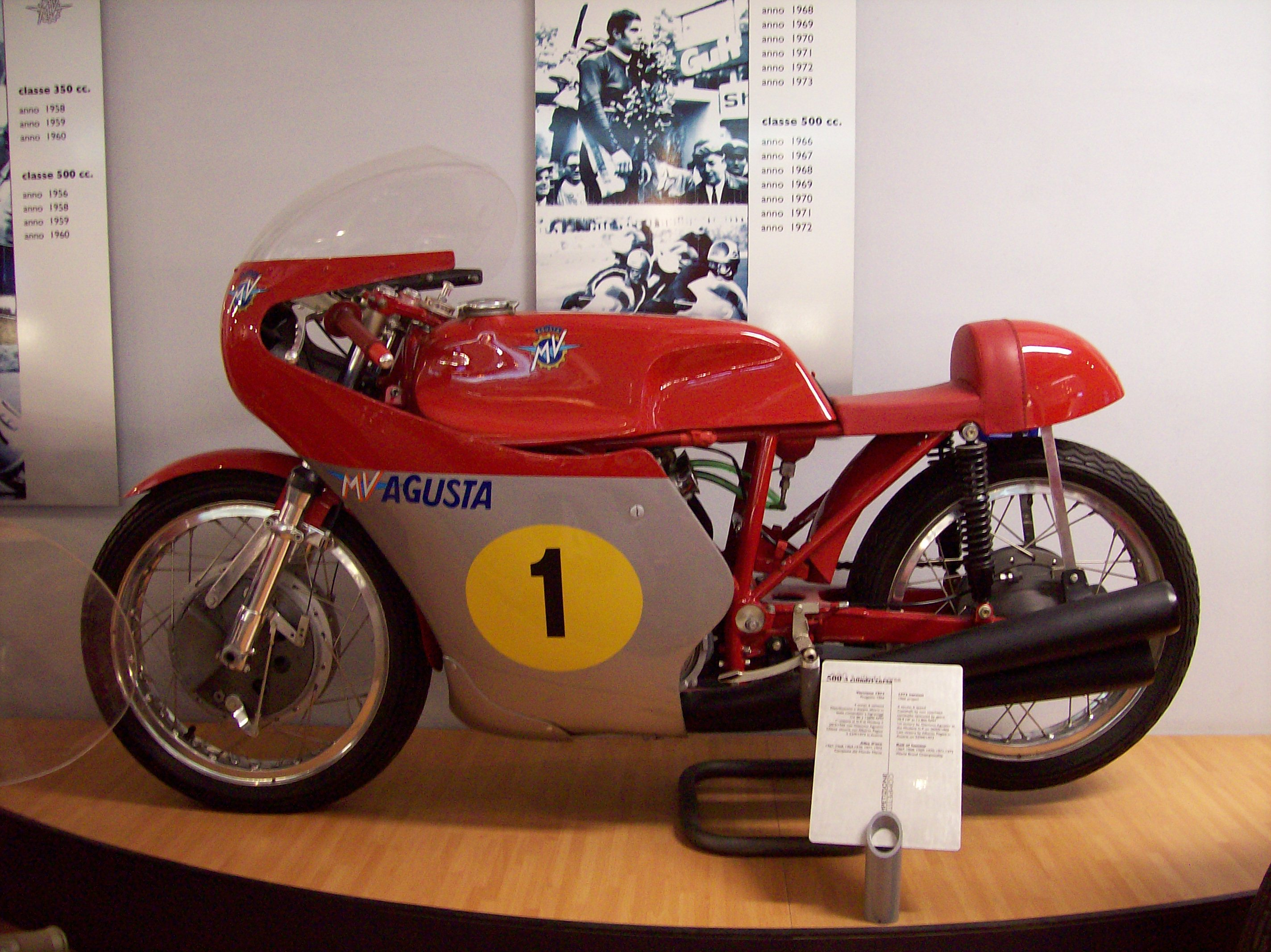 1973 500 Tre Cilindrica Ralf